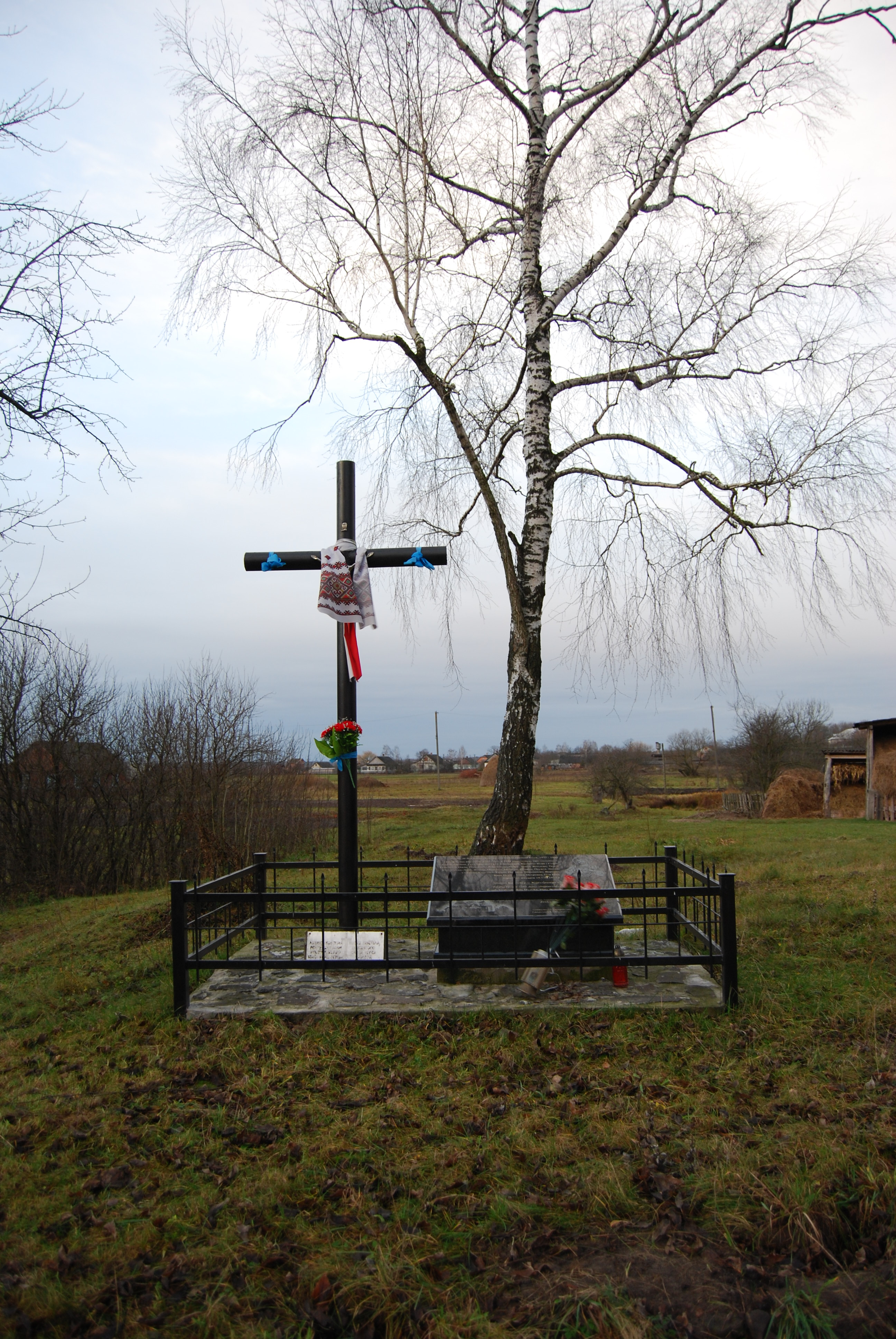 The cross and memorial plaque in the place of burned and destroyed church in Huta Stepańska.